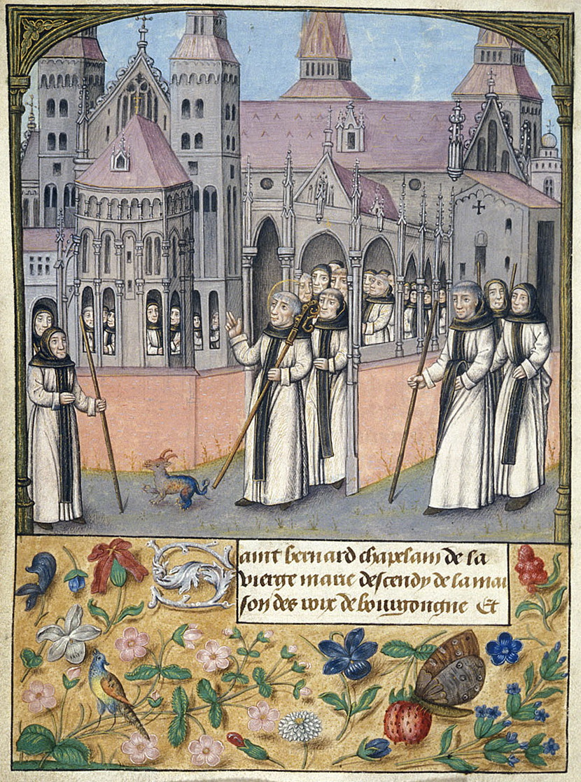 Illumination from Chroniques abrégées des Anciens Rois et Ducs de Bourgogne. Southern Netherlands, c. 1485-1490. Collection: British Library, London, UK. Translation text: Bernard of Clairvaux, chaplain of the Virgin Mary leaving his house on his way to Burgundy. The church depicted is not Clervaux Abbey as is to be expected but the Church of Saint Servatius in Maastricht.